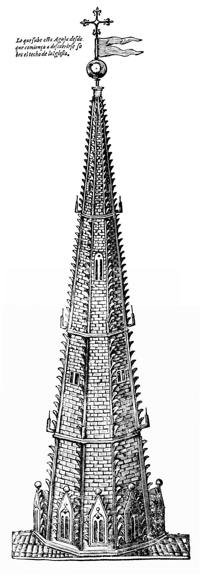 Spire of Iglesia de Palacio in Logroño (Spain) as seen in a picture in 1633. Translation of the text is: "What this spire/steeple rises from the place where it starts to come out over the ceiling of the curch."